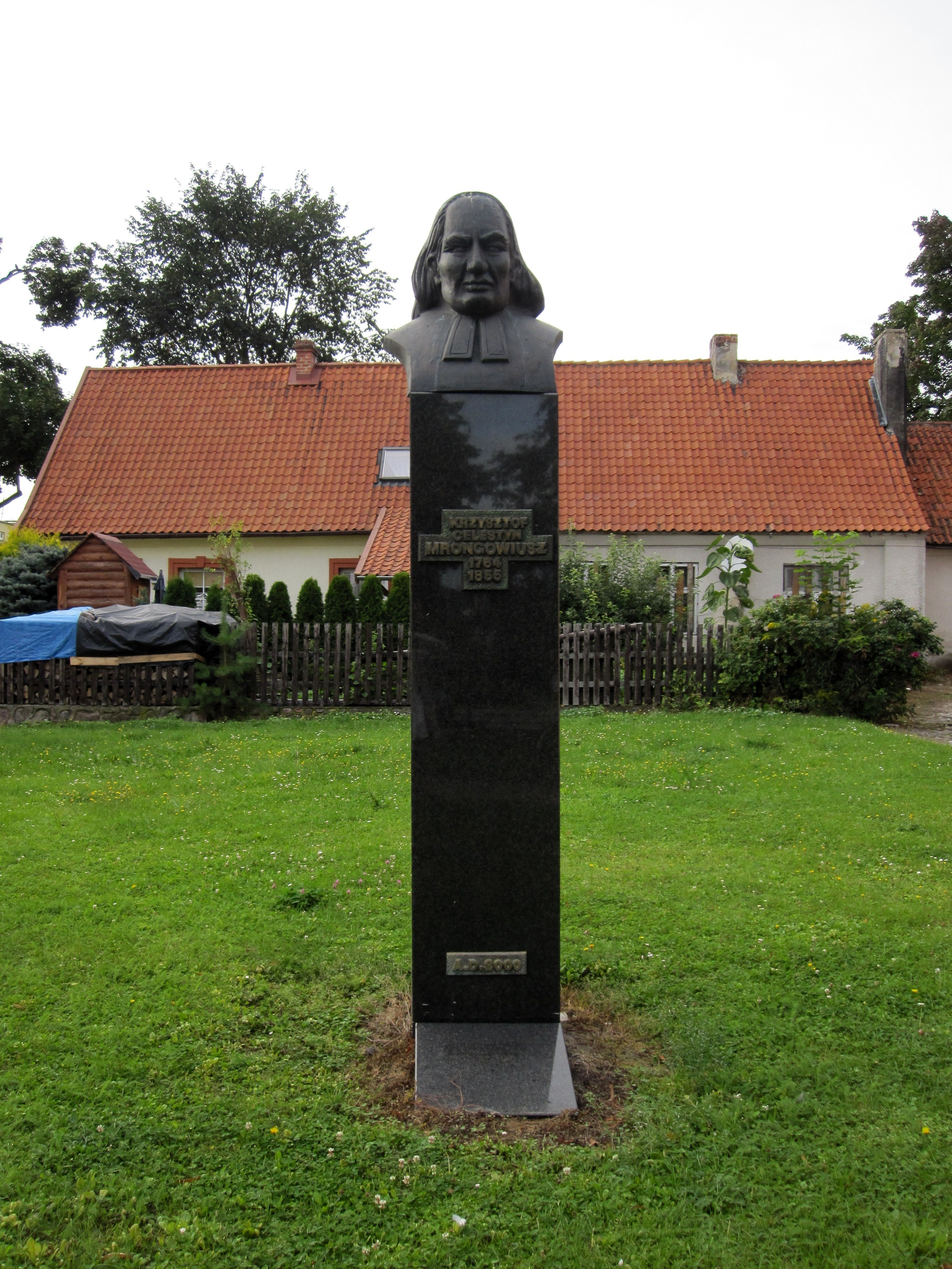 Krzysztof Mrongovius monument in Olsztynek